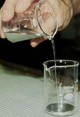 Pouring liquid mercury from one beaker to another.